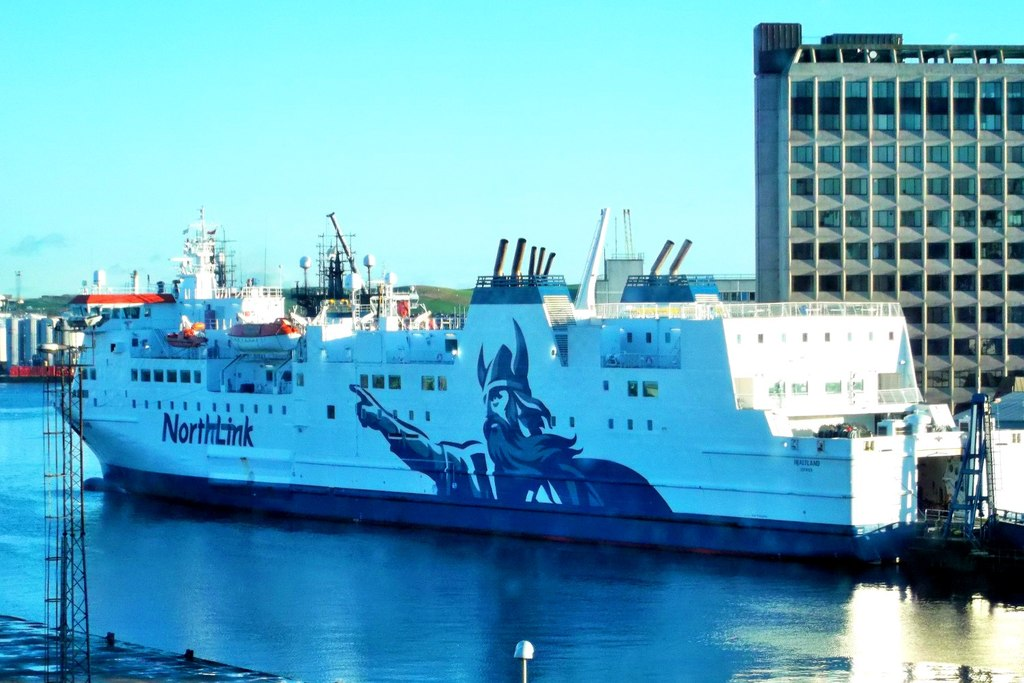 MV Hjaltland